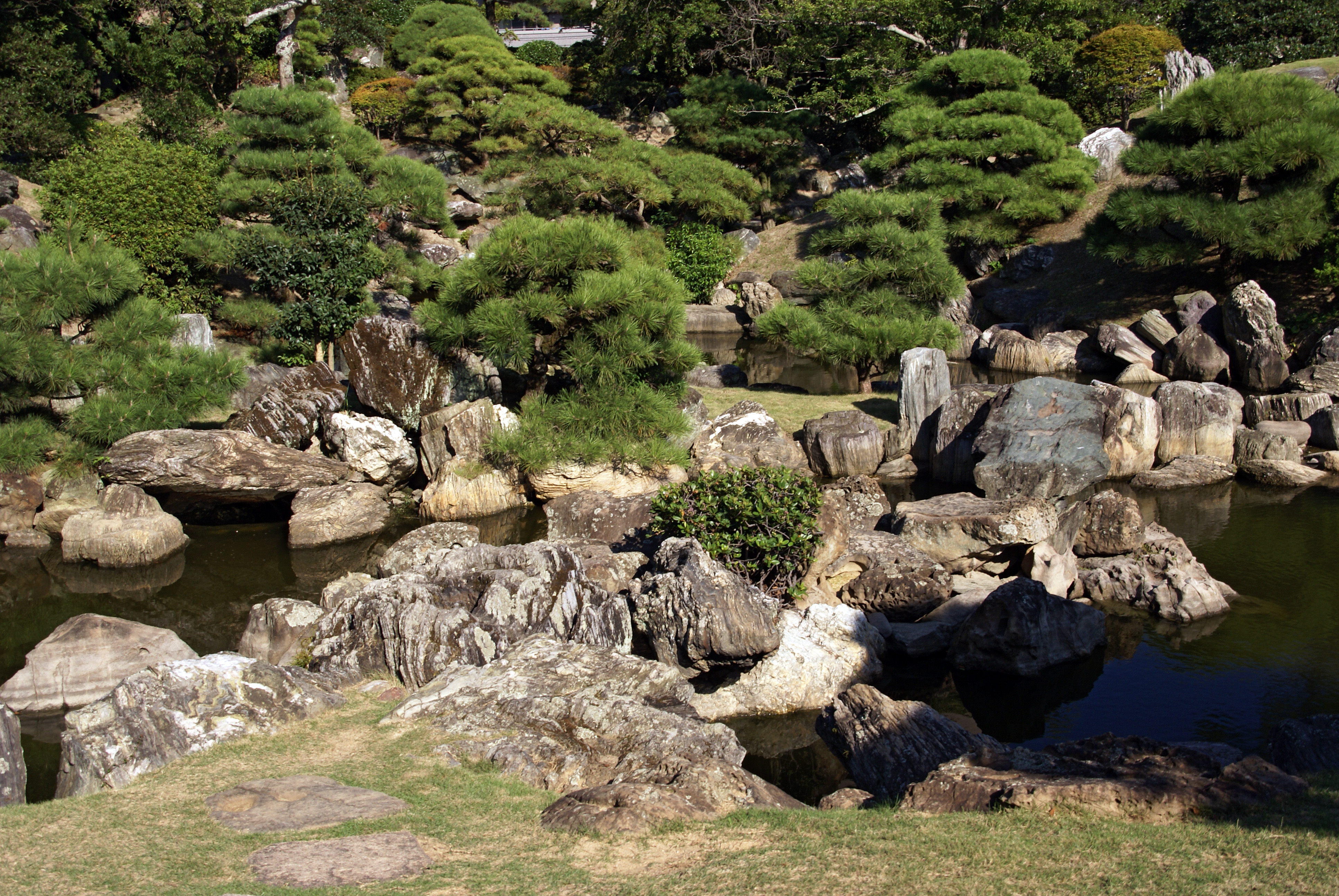 Tokushima Castle Lordly Front Palace Garden in Tokushima, Tokushima prefecture, Japan